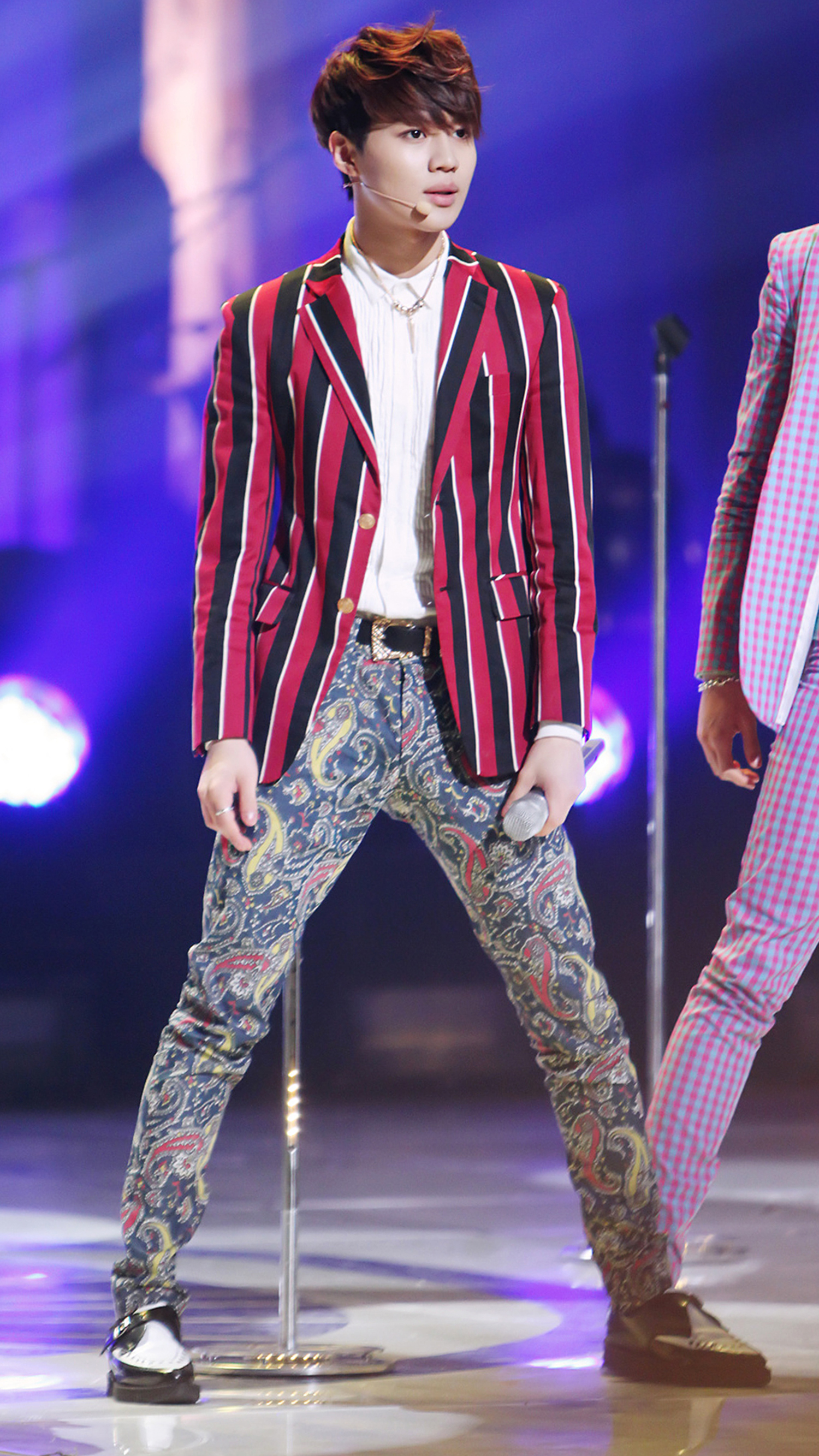 Lee Tae-min during the KBS Open Concert on March 5, 2013.